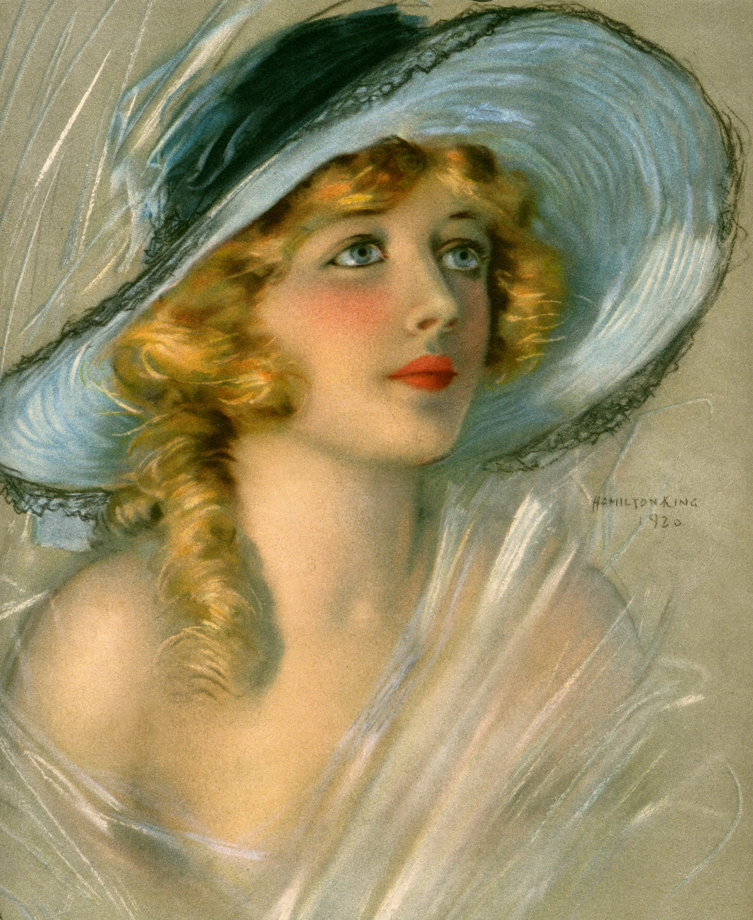 Portrait of Marion Davies by Hamilton King for the June 1920 cover of Theatre Magazine.